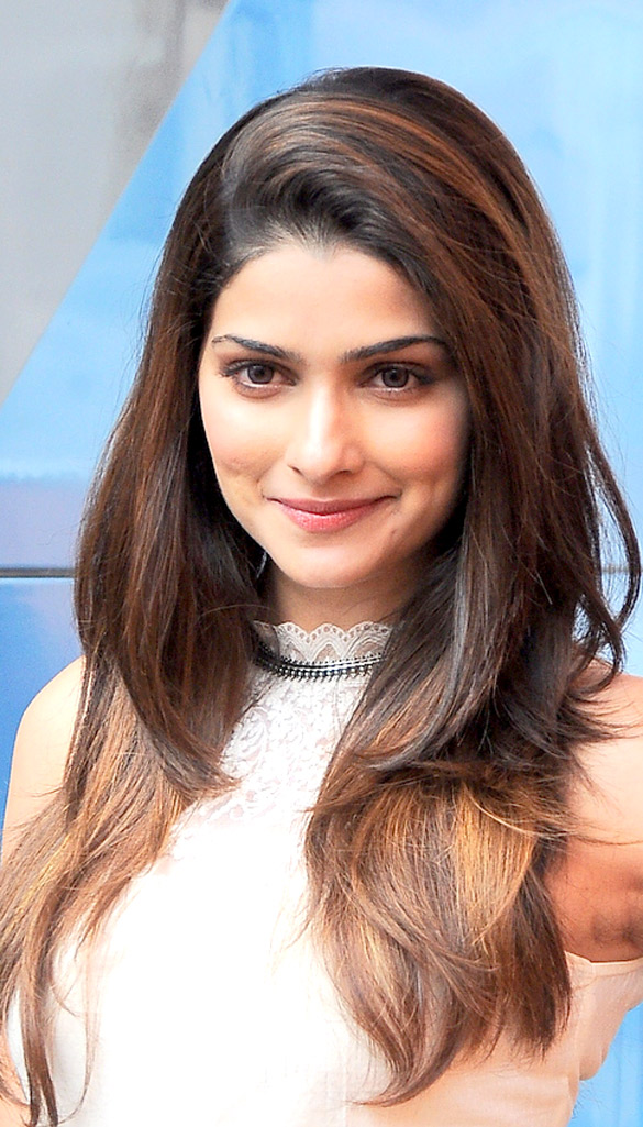 Cast of 'Bol Bachchan' interview at Mehboob studio Prachi Desai